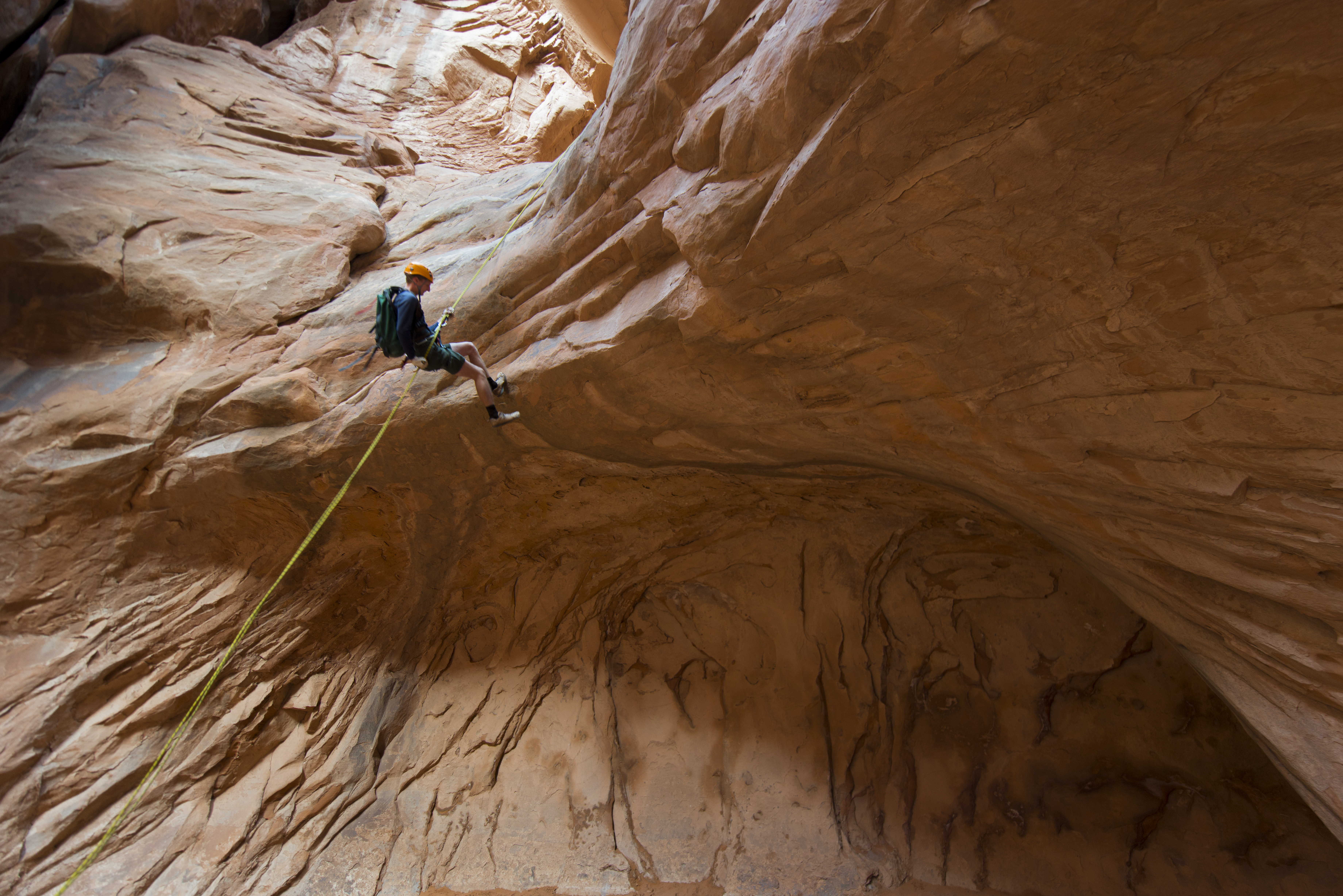 (NPS photo by Neal Herbert)